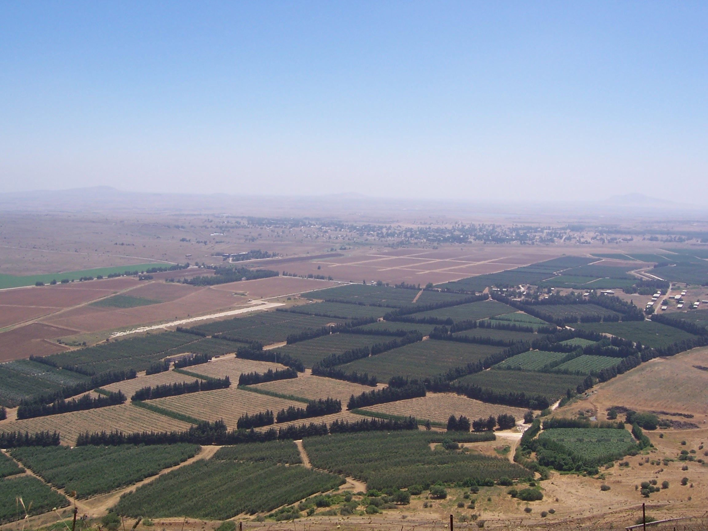 The Golan Heights' border with Syria proper. The Golan Heights end (and Syria begins) where the farmland ends. In the background is the deserted city of Quneitra in Syria. The white buildings on the right are mostly UN buildings.